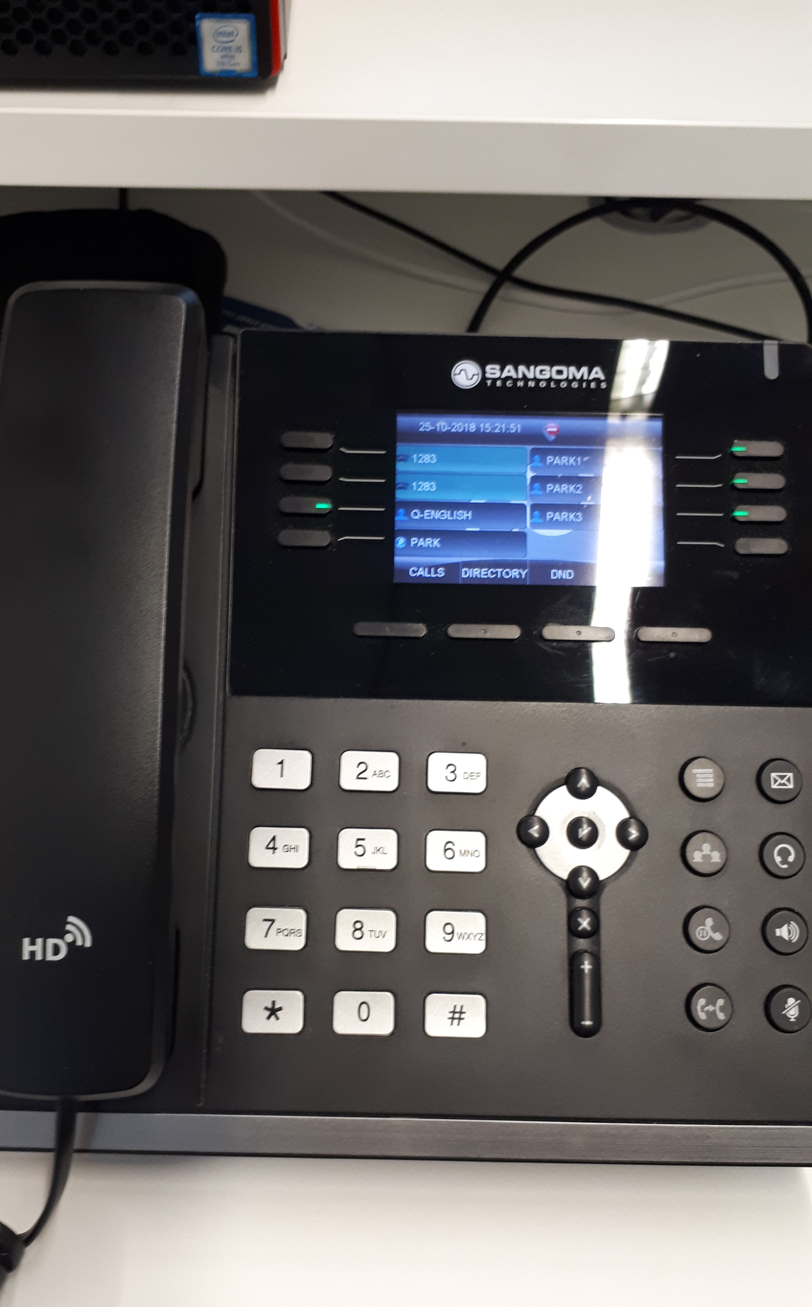 VoIP telephone in Poland